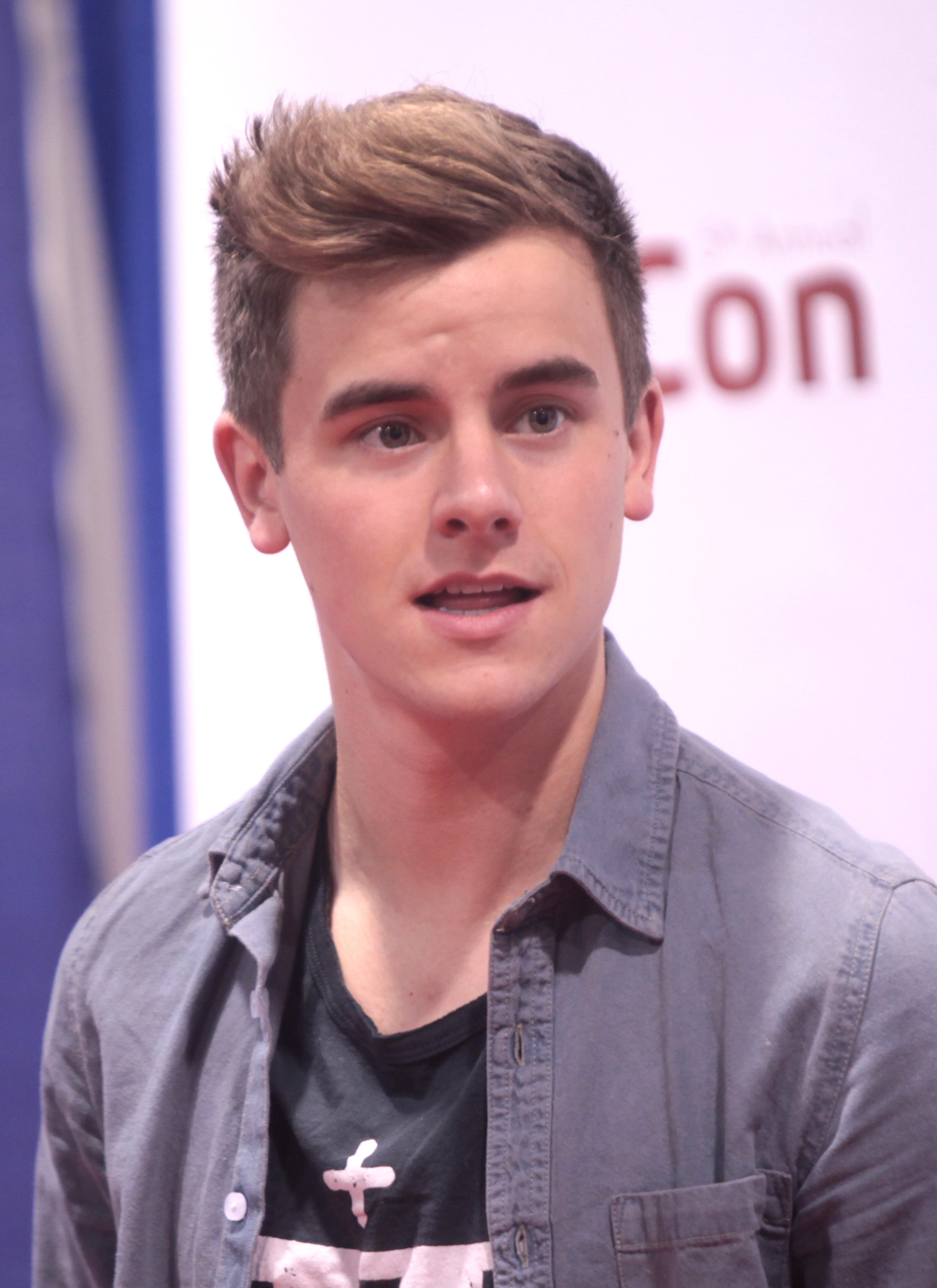 Connor Franta at the 2014 VidCon at the Anaheim Convention Center in Anaheim, California.